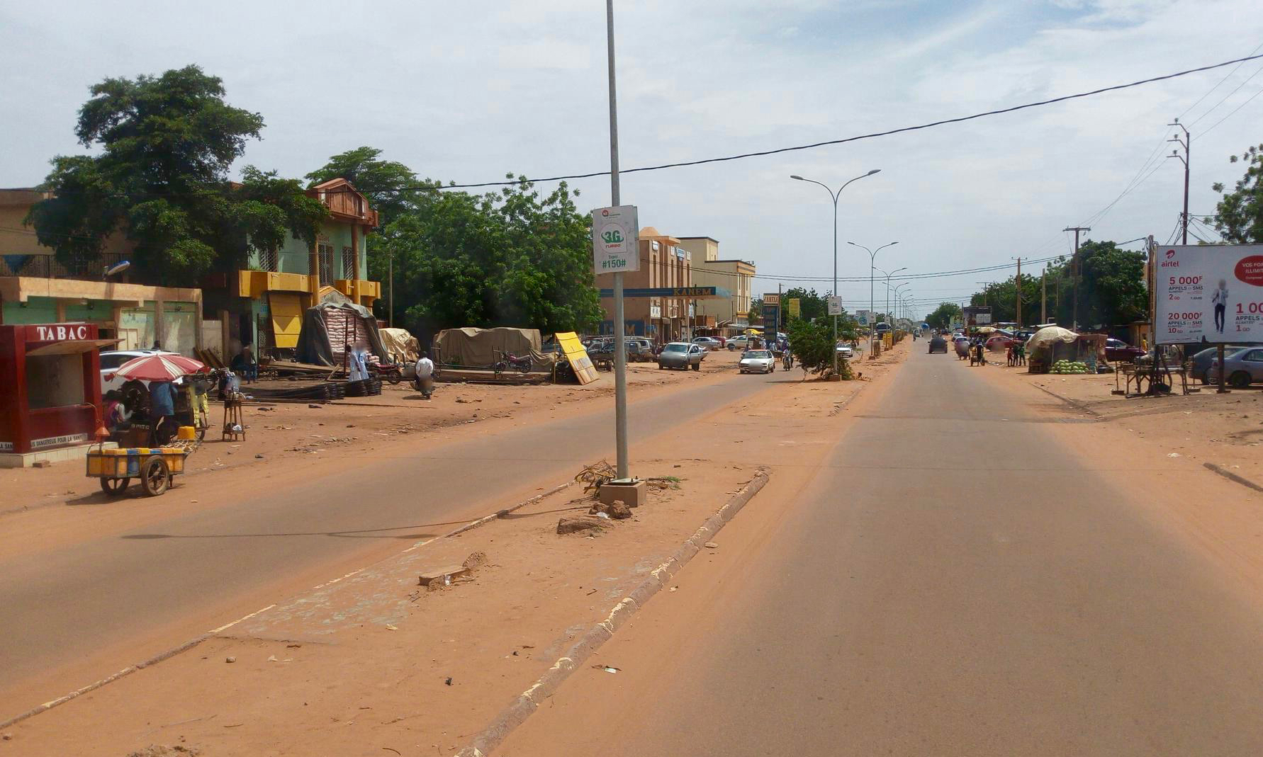 Avenue de l’Islam as the boundary road between the quarters of Abidjan (left) and Kalley Sud (right), Niamey.